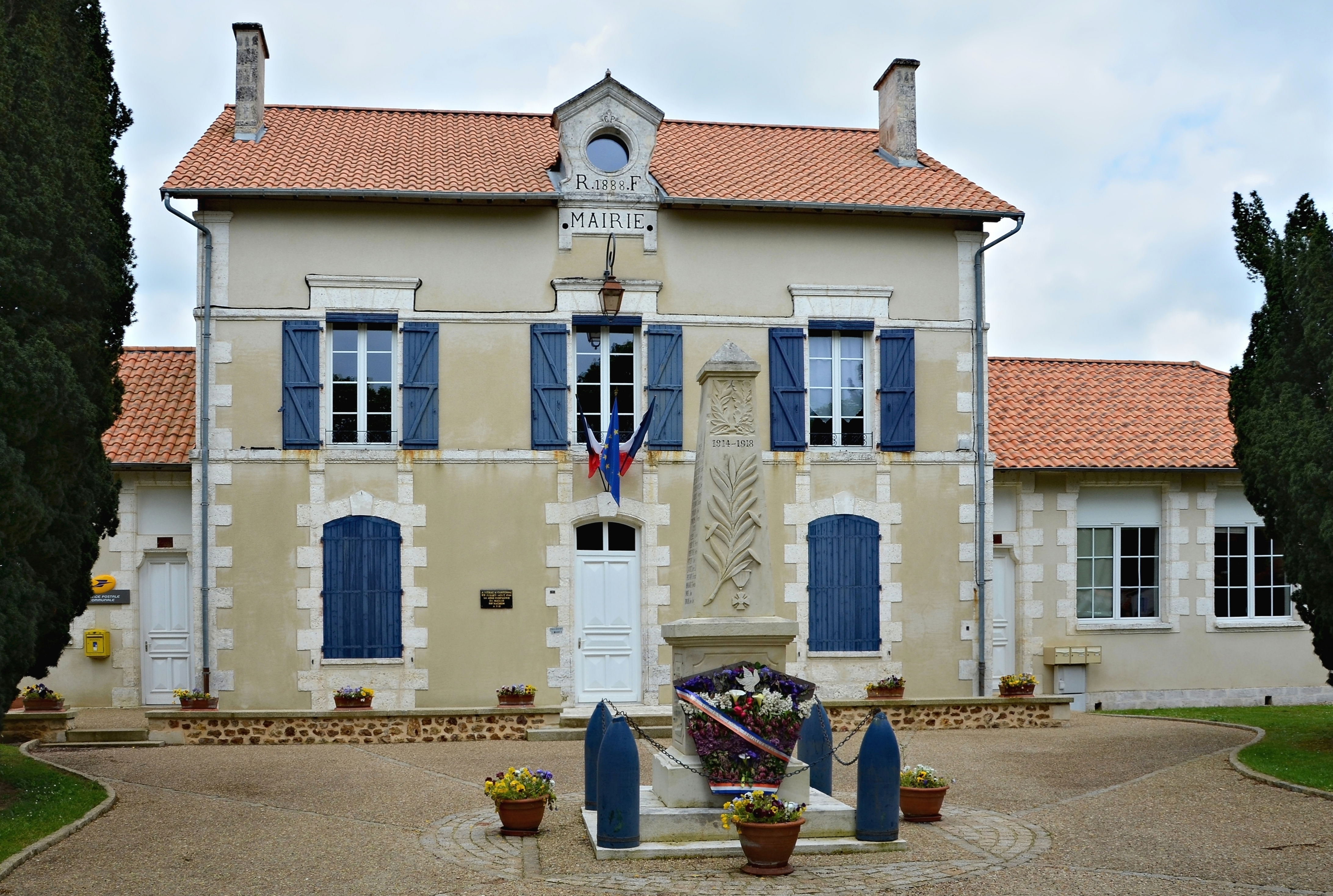 Town hall (19th century) of Vitrac-Saint-Vincent, Charente, France.